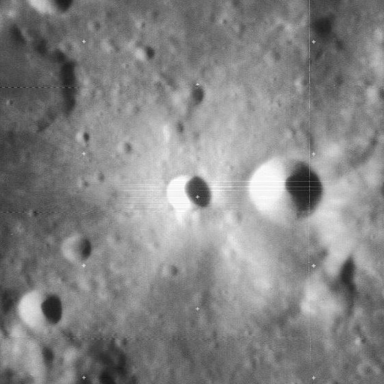 Censorinus, on the moon.